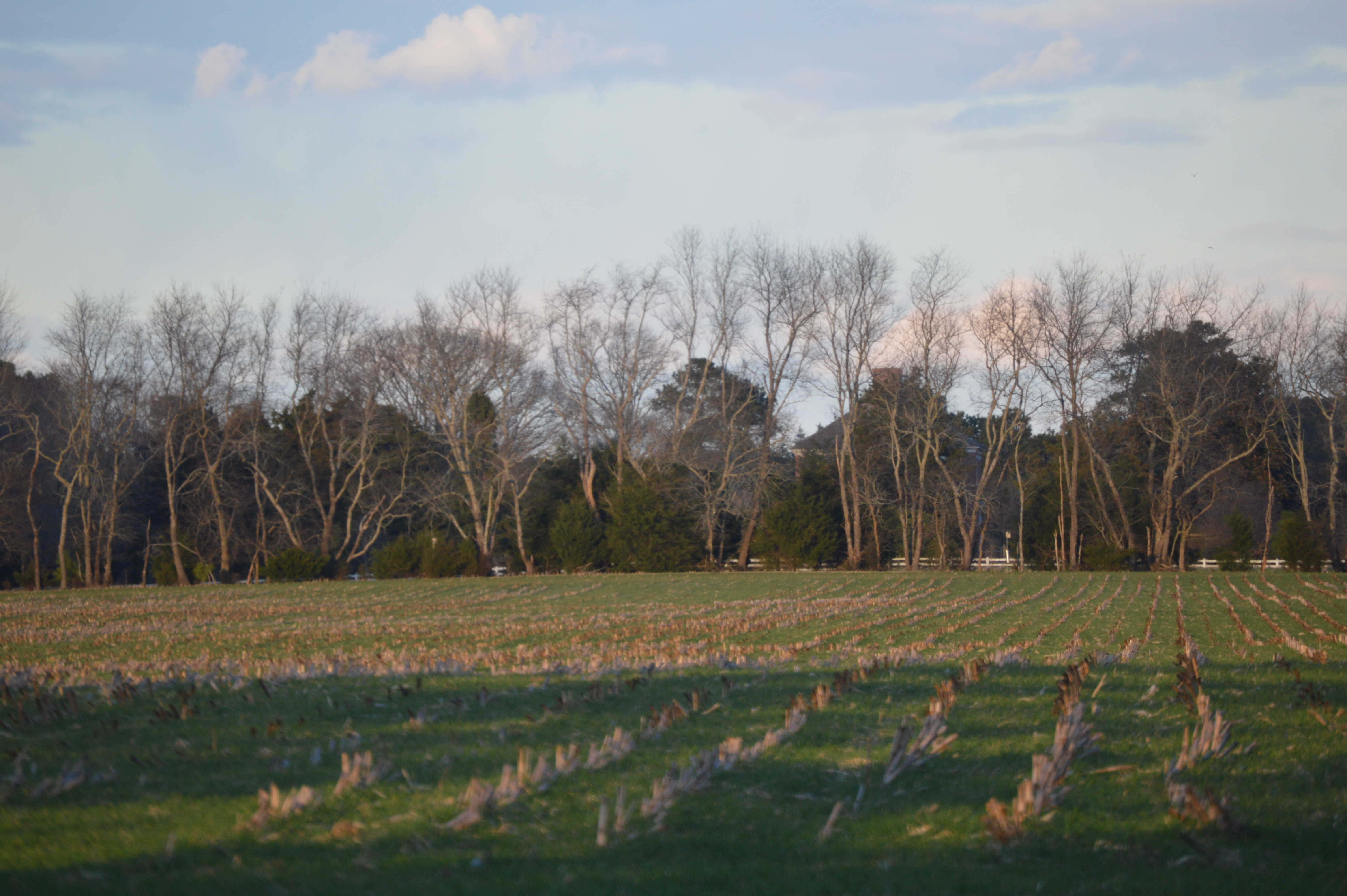 Looking over the fields toward the farmhouse at Wharton Place, located on Pettit Road east of Metompkin Road, east of Mappsville, in Accomack County, Virginia, United States. Built in 1798, it is listed on the National Register of Historic Places.